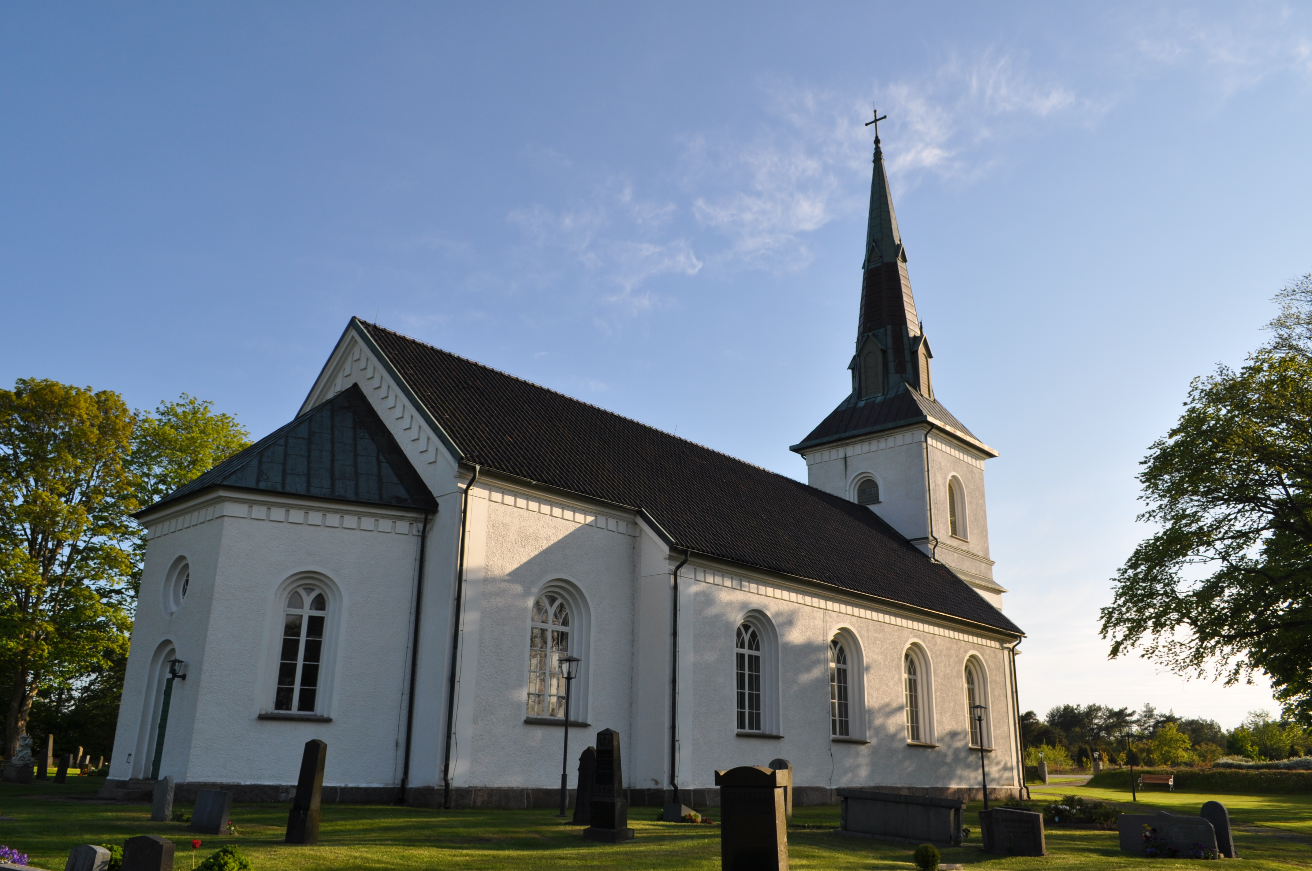 Sturkö church - kyrka